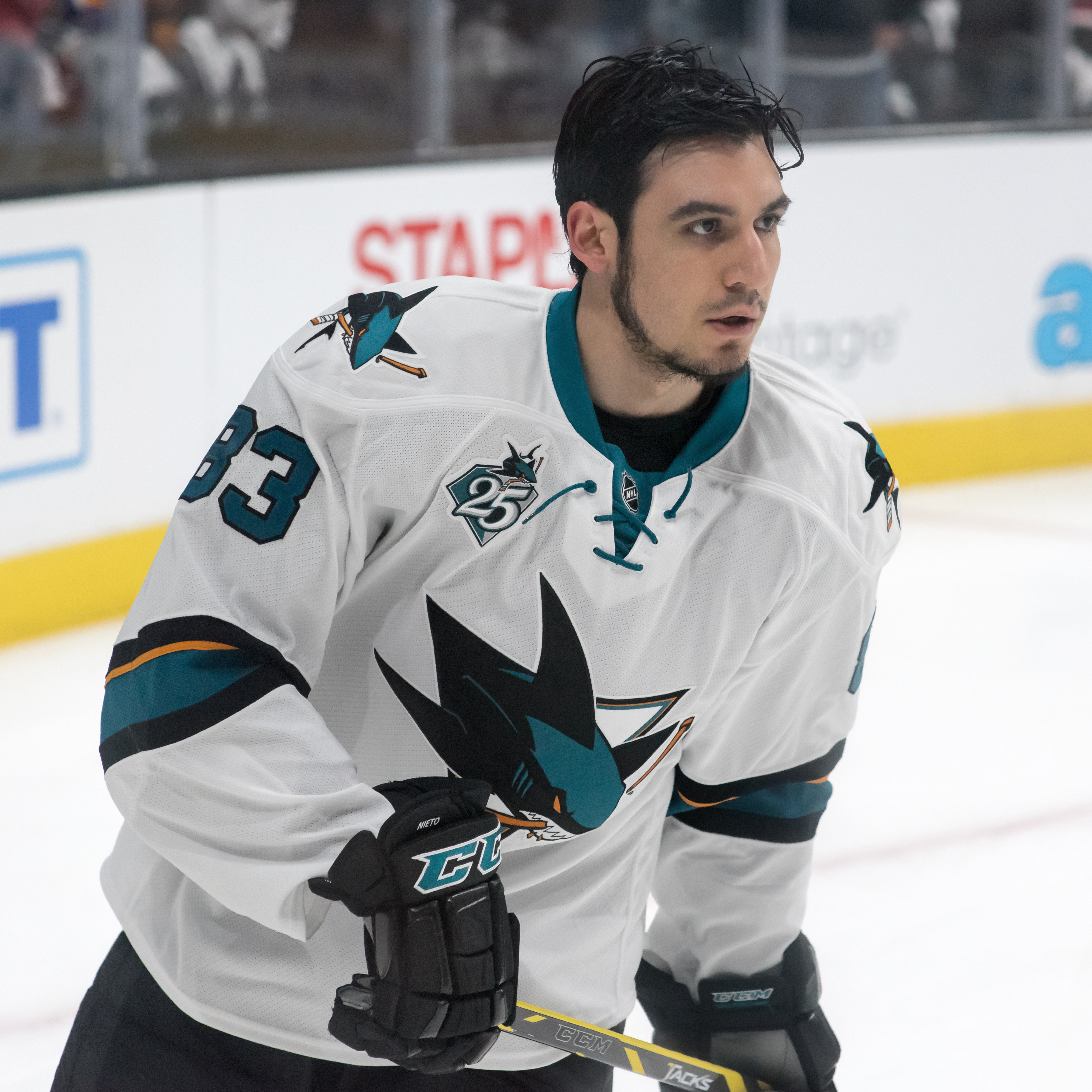 Matt Nieto in 2016